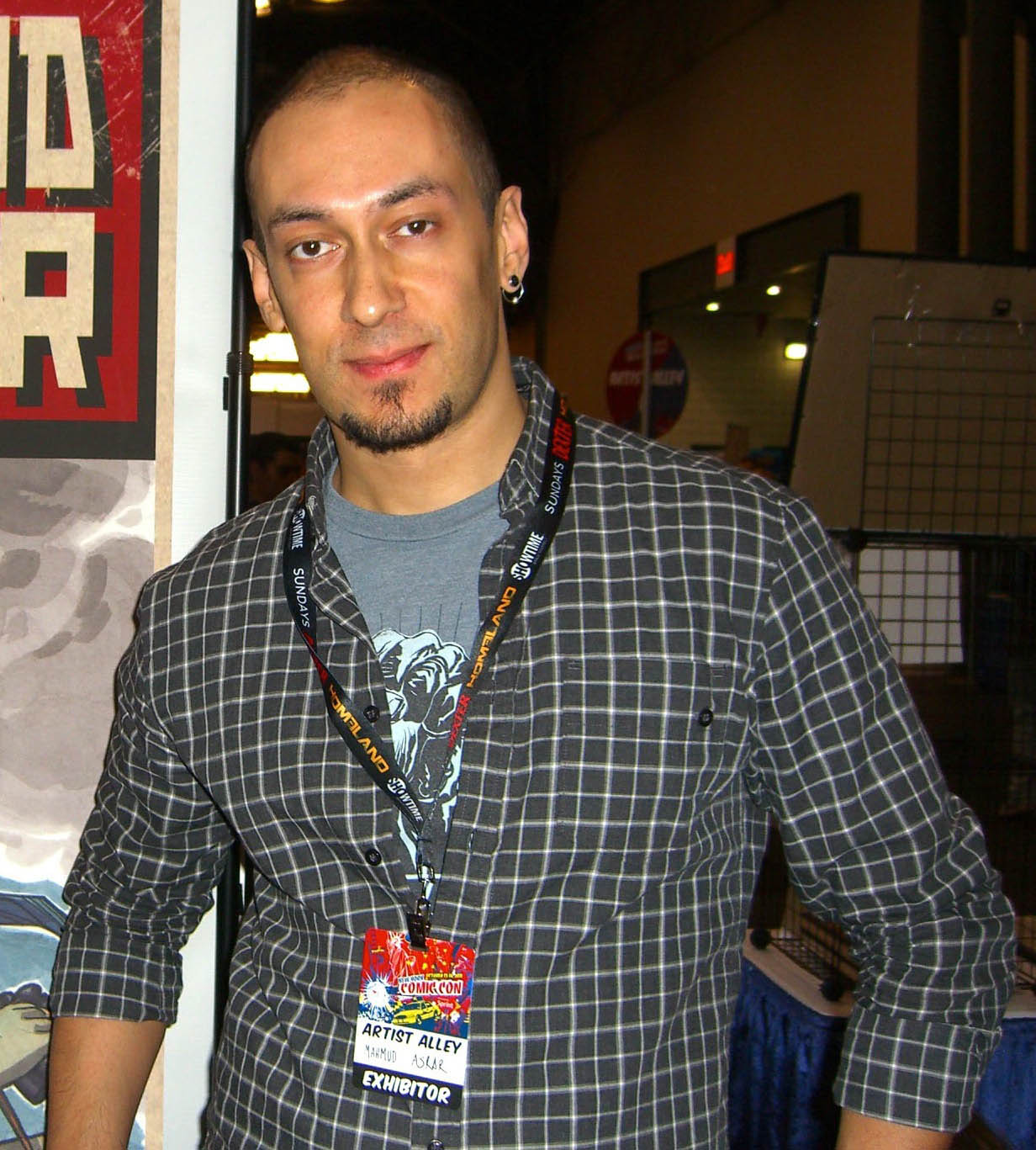 Comics creator Mahmud A. Asrar during an October 16, 2011 appearance at the New York Comic Con in Manhattan. This photo was created by Luigi Novi. It is not in the public domain, and use of this file outside of the licensing terms is a copyright violation.